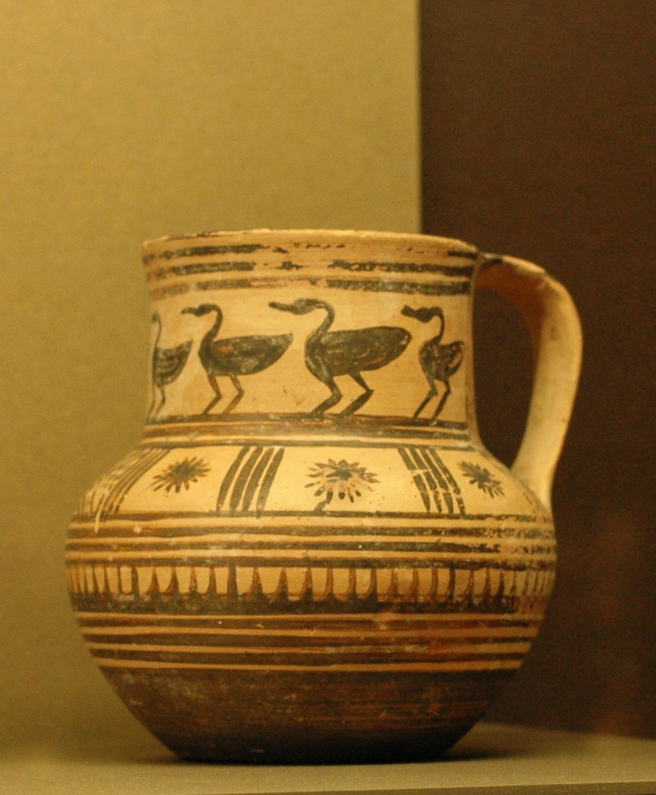 Jug with birds from Athens, ca. 750–725 BC (Late Geometric).